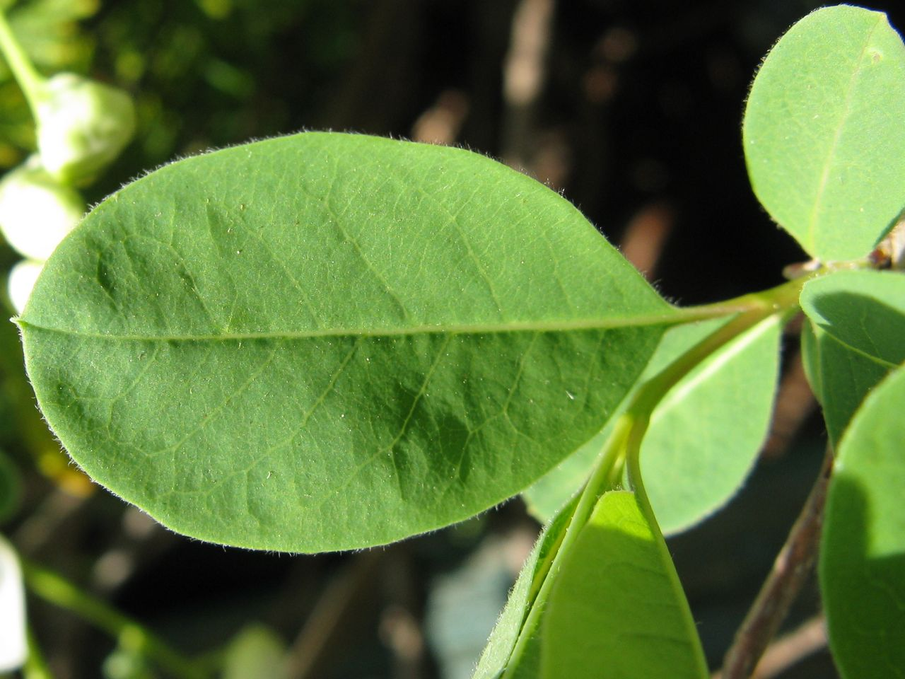 Young leaf